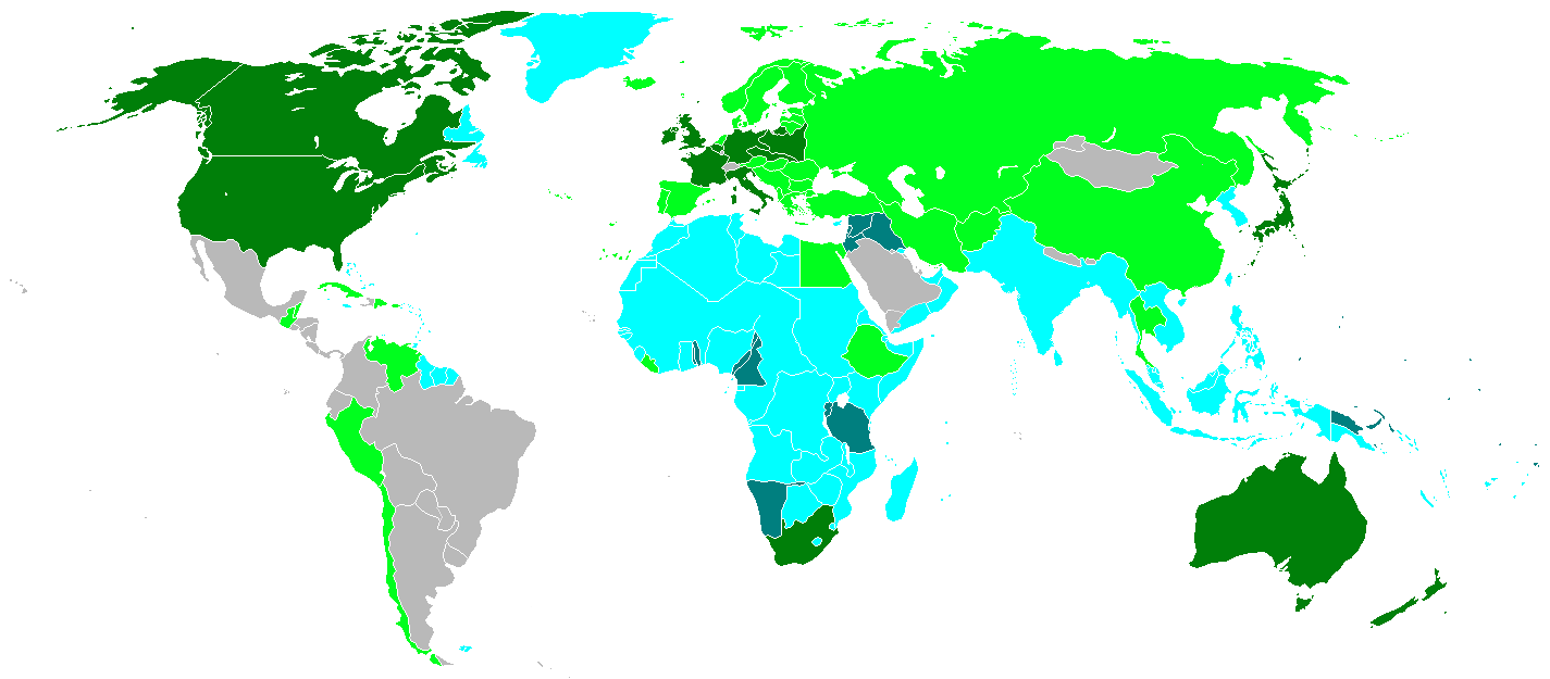 map showing the parties to the Kellogg Briand Pact Key: Dark green - original signatories Light green - later adherents Light Blue - territories of parties Dark blue - League of Nations mandates of parties